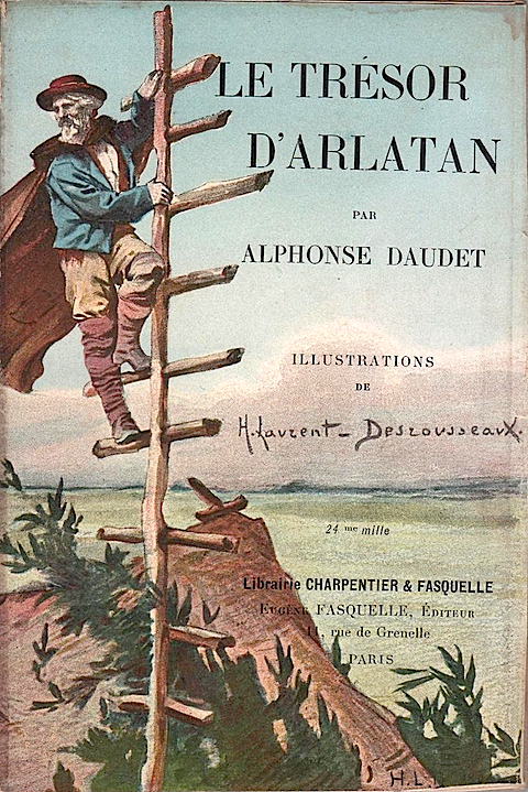 Illustrated book cover by Henri Laurent-Desrousseaux for Le Trésor d'Arlatan by Alphonse Daudet, Paris, Eugène Fasquelle éditeur, 1897.